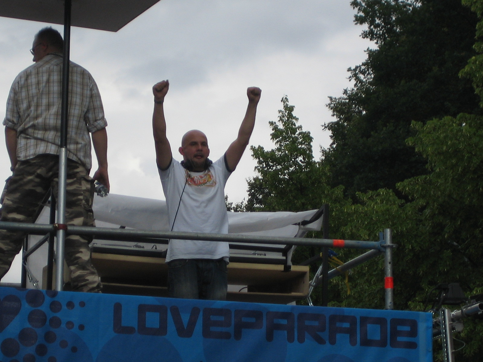 Westbam on the Love Parade 2006 in Berlin/Germany